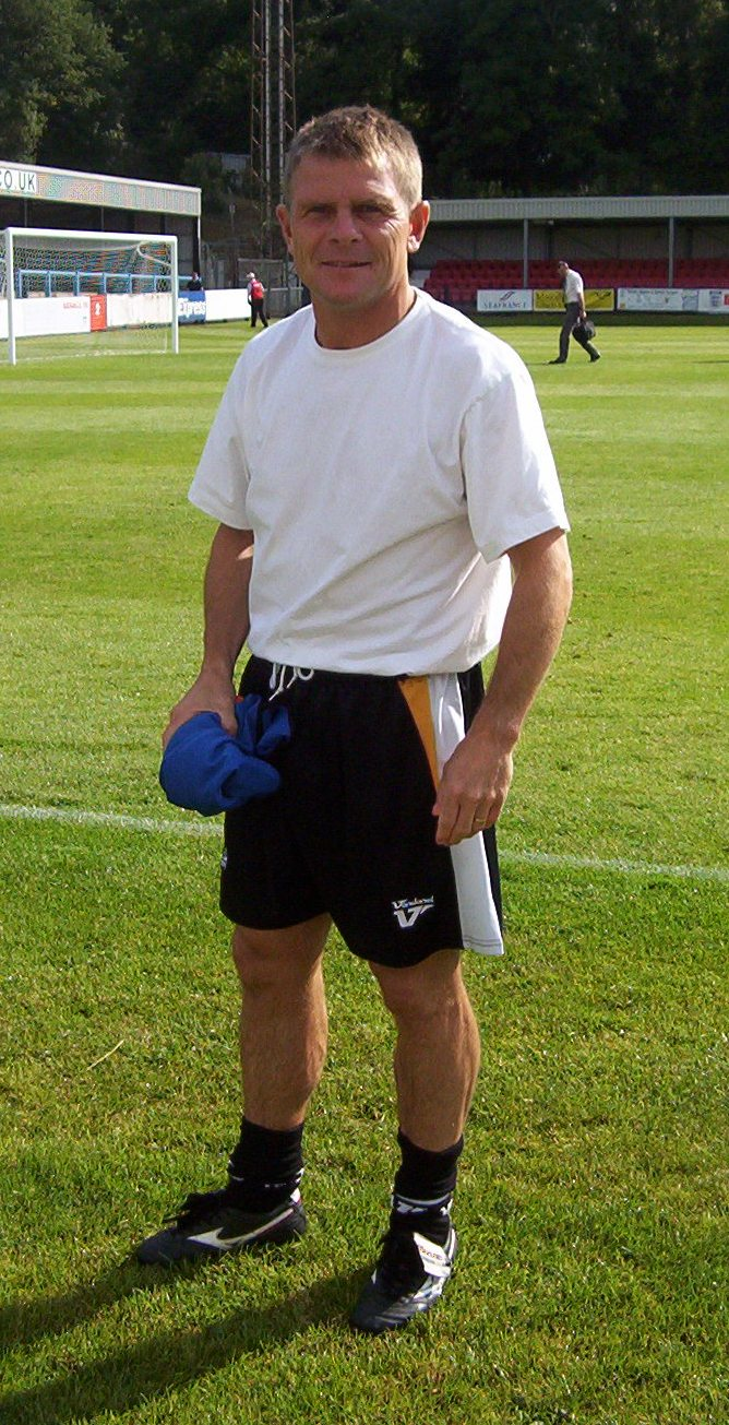 Andy Hessenthaler photographed by myself following the match between Dover Athletic and Wycombe Wanderers in July 2009